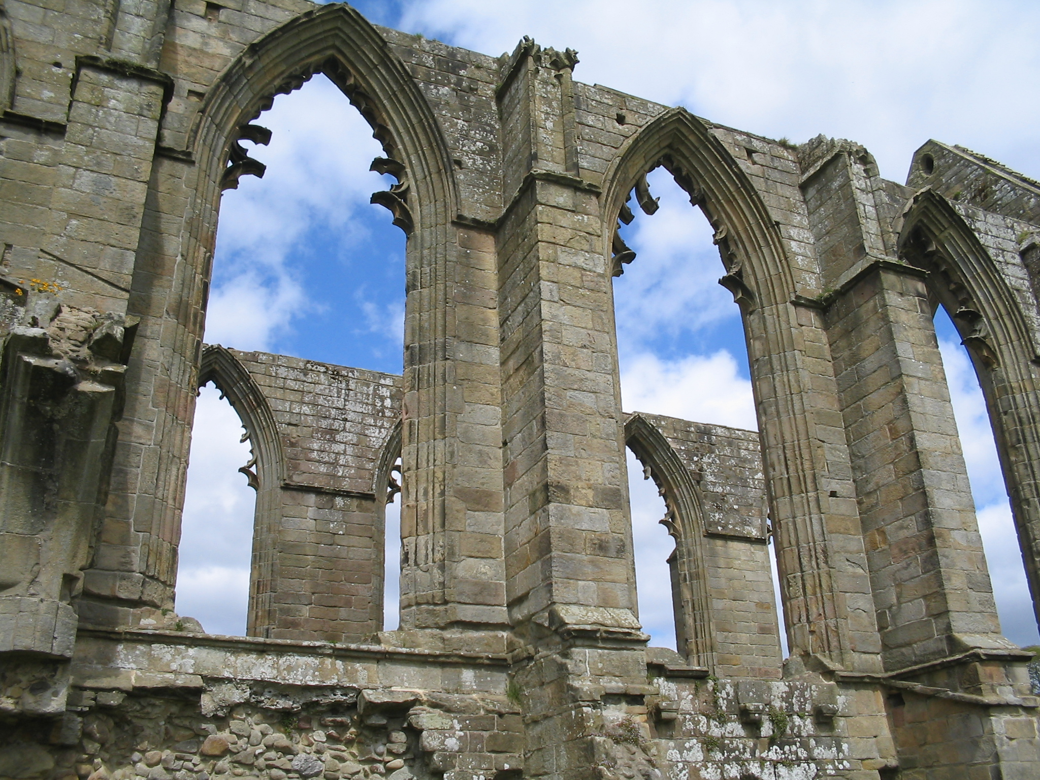 Part of the ruins at Bolton Abbey.